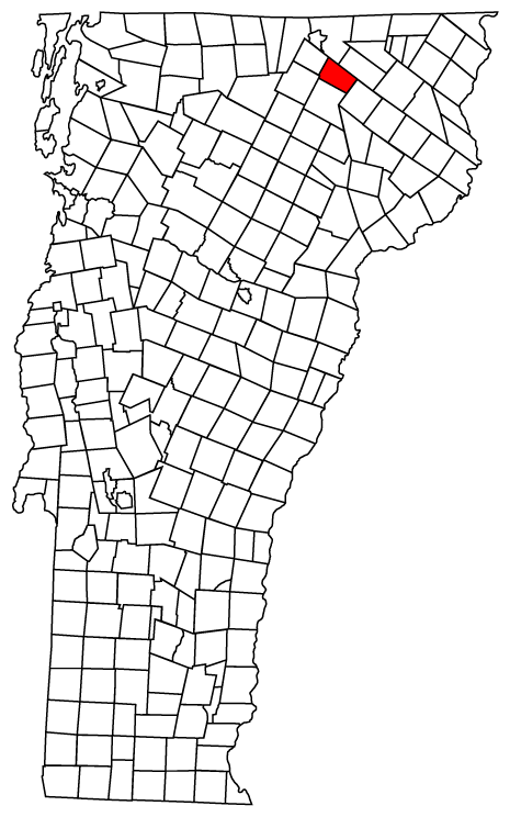 Map of Vermont towns with Brownington highlighted